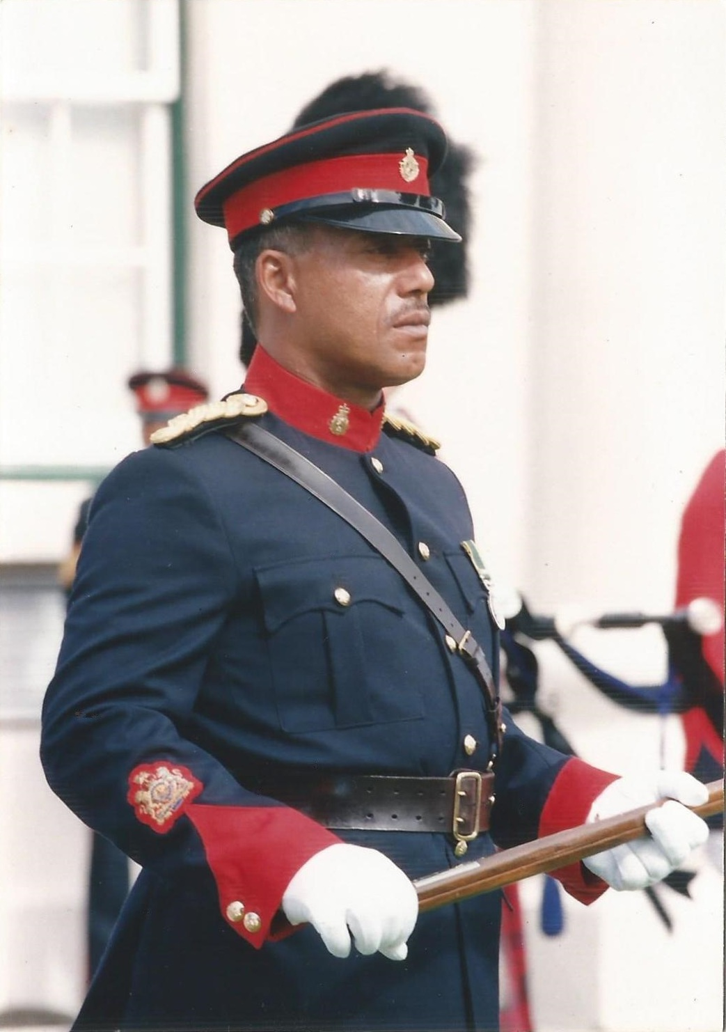 The Regimental Sergeant Major of the Royal Bermuda Regiment, WO1 Herman Eve, in front of the Cabinet Building of the Government of Bermuda, in the City of Hamilton, in the British Overseas Territory of Bermuda, during the 1992 Remembrance Day ceremony.